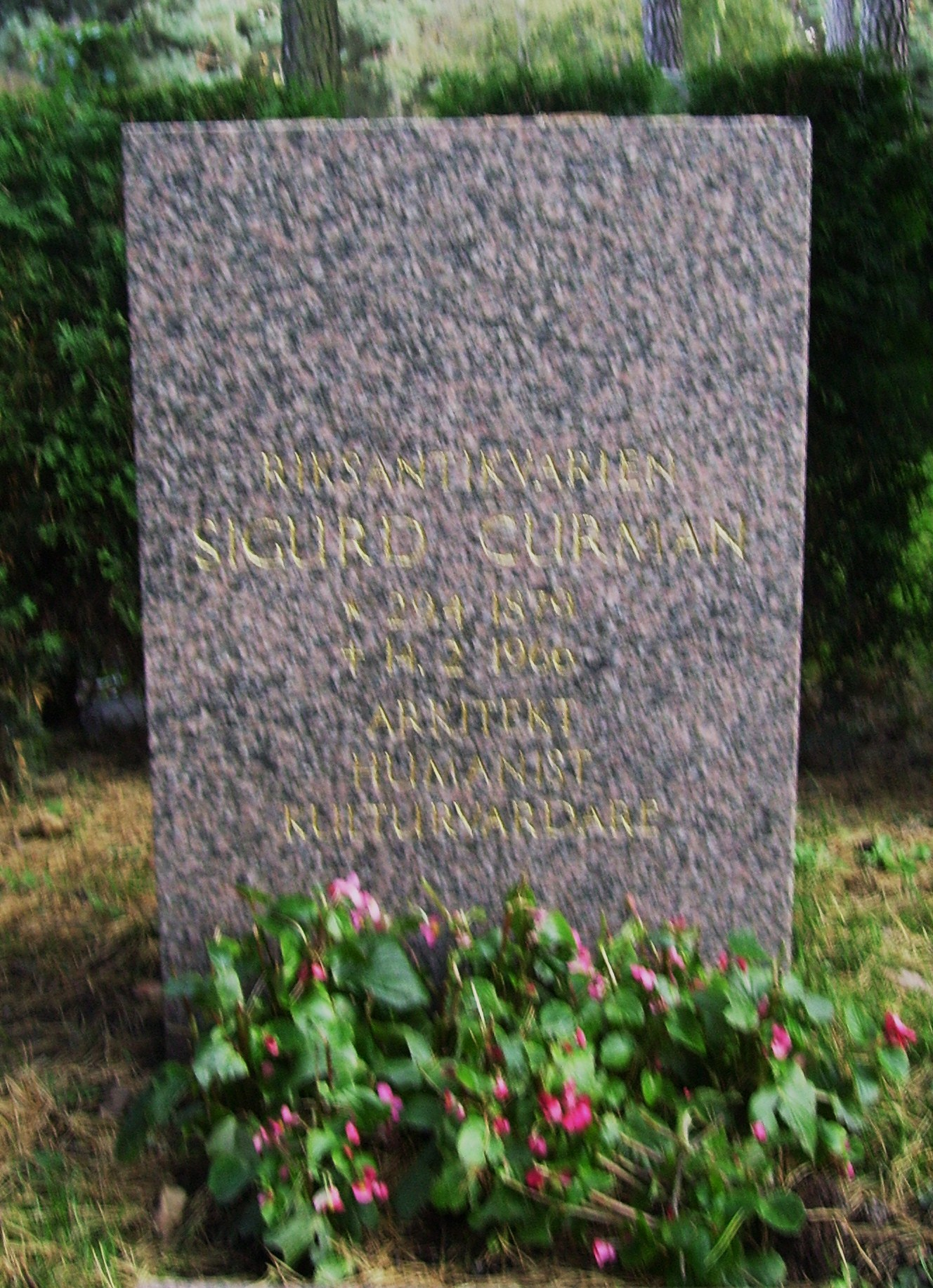 Picture of Sigurd Curman's grave at Norra begravningsplatsen in Stockholm